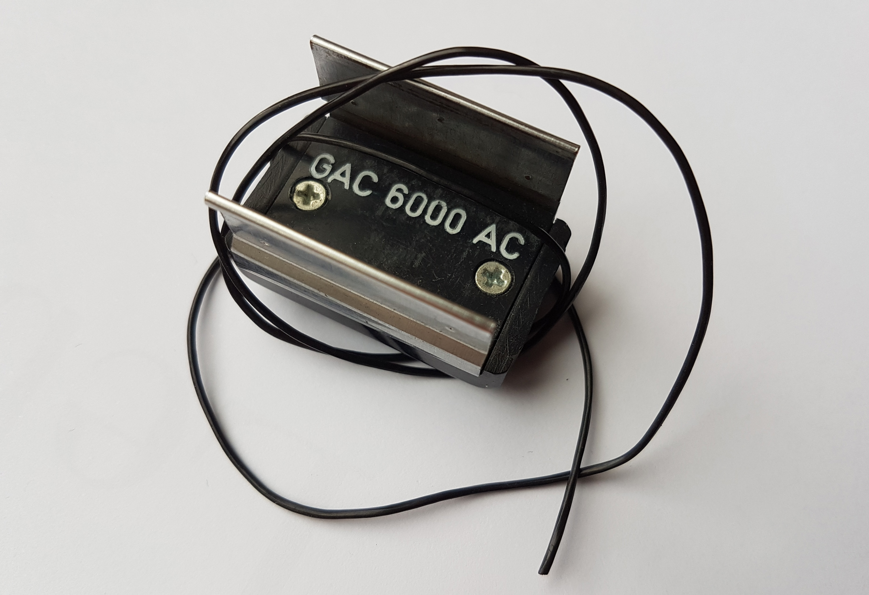 Motorola Pageboy II antenna GAC 6000 AC